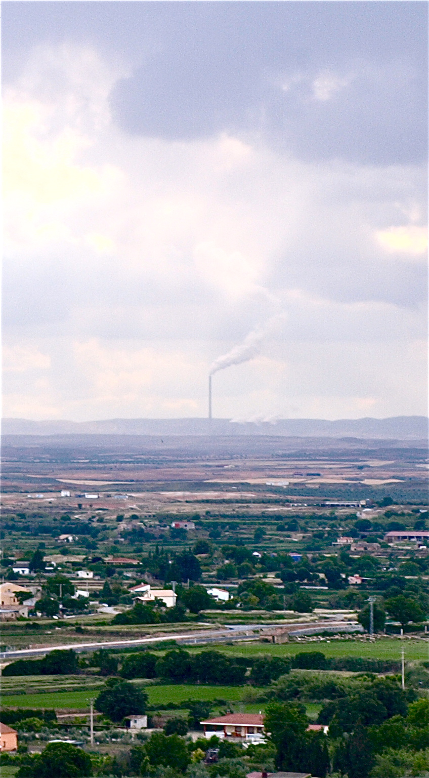 Coal Thermal Power station at Andorra, Teruel